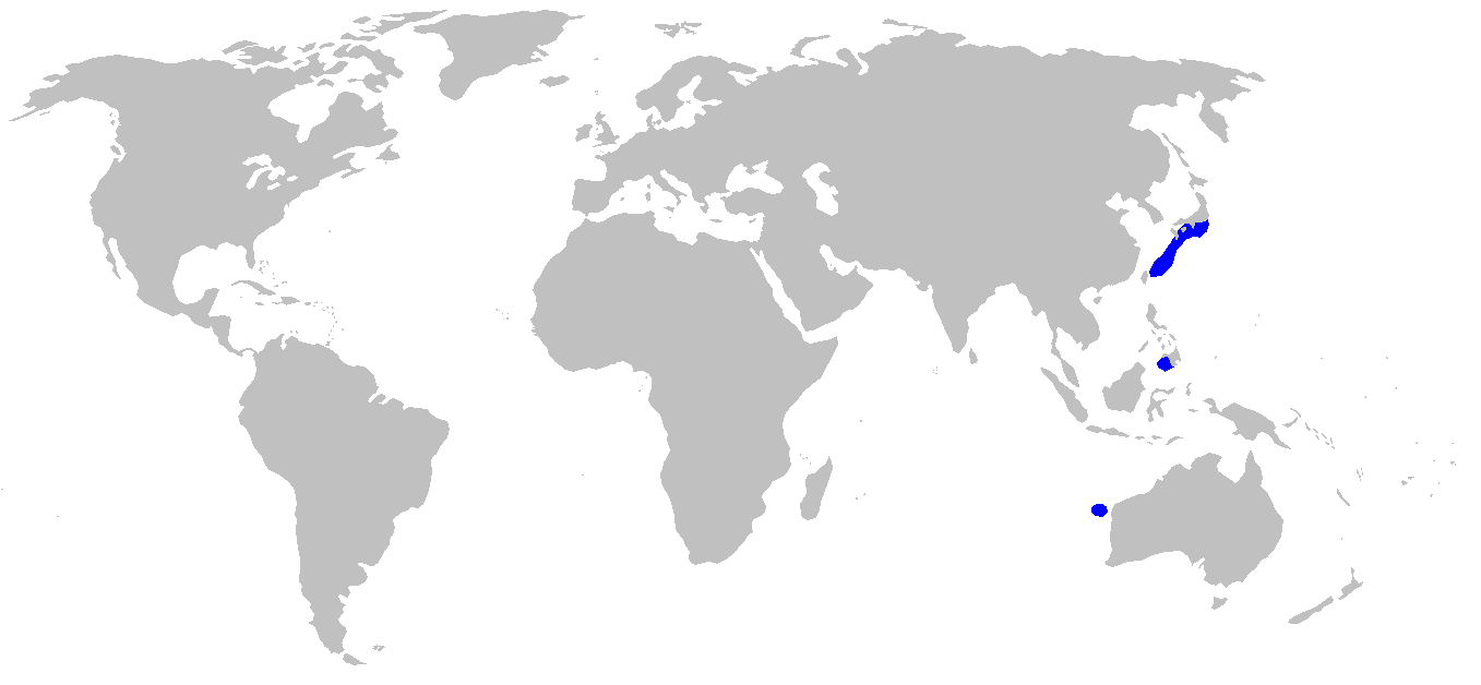 Distribution map for Etmopterus brachyurus